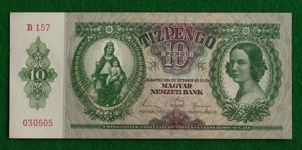 10 Pengő from Hungary - obverse